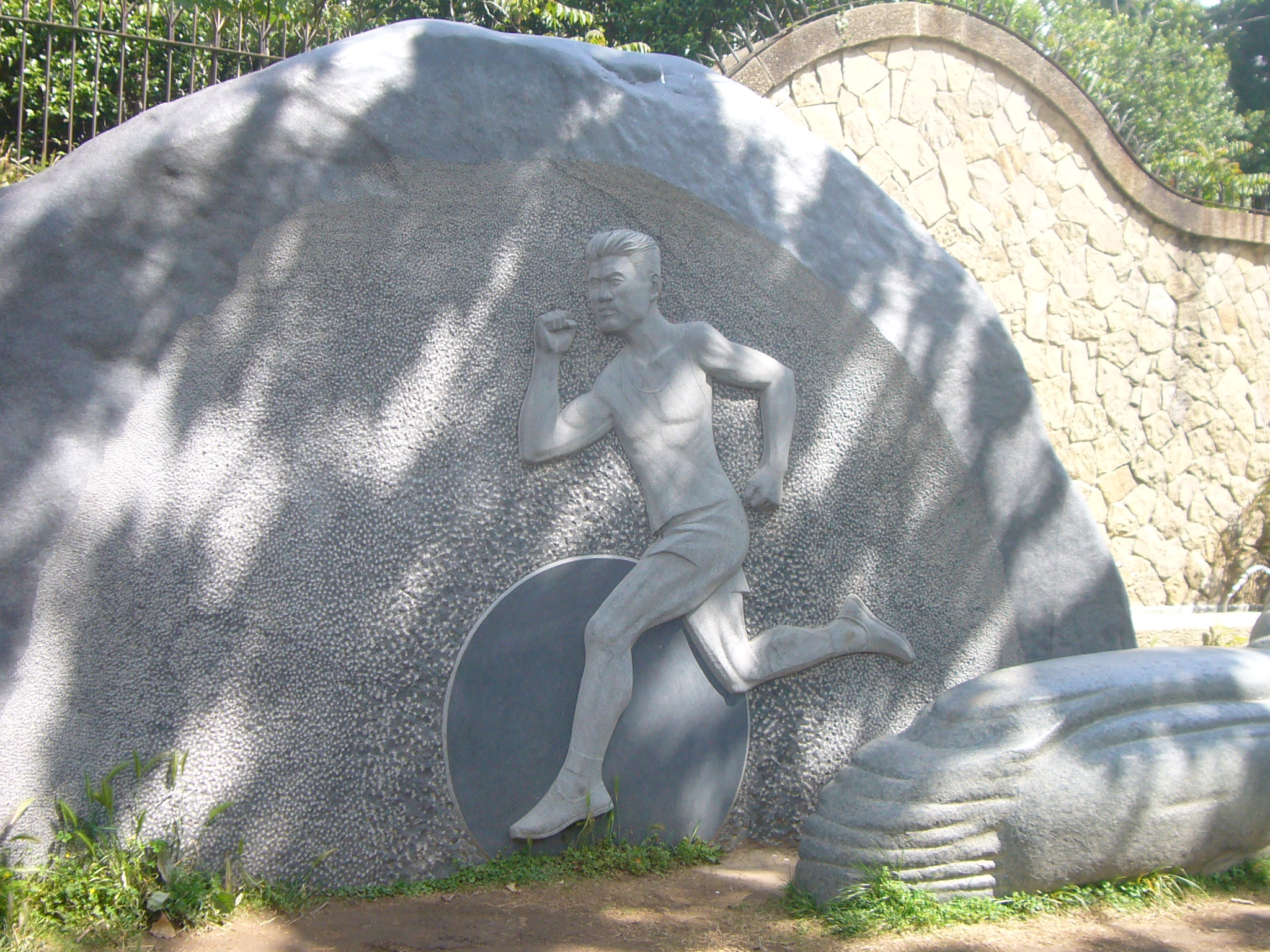 Symbolic Monuments of the Kyonggi Province. Located in Avinguda de l'Estadi, Barcelona